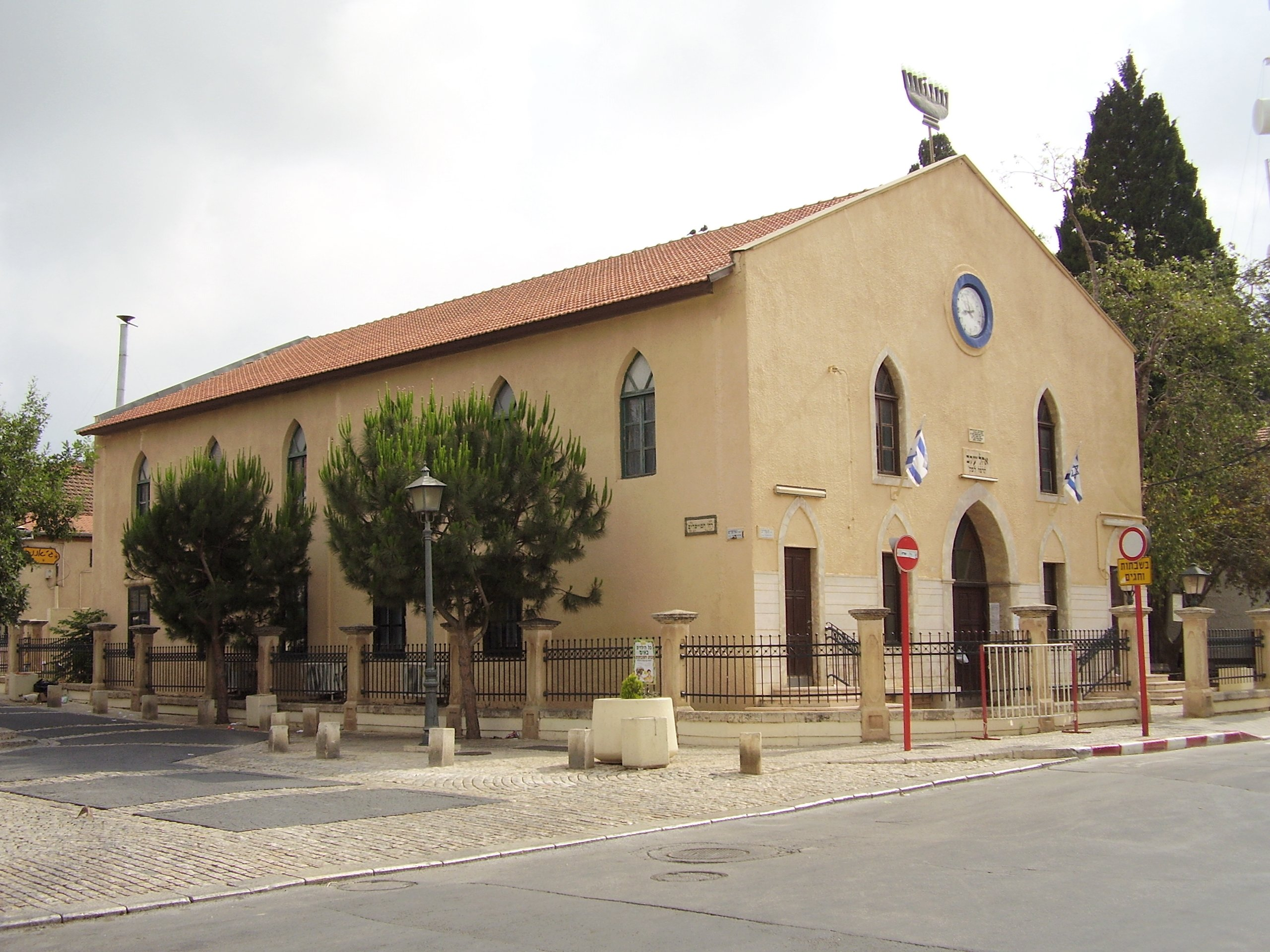 The Ohel Yaacov sinagogue, in Zichron Yaacov, Israel; view from north-east, corner of HaNadiv and HaMeyasdim streets